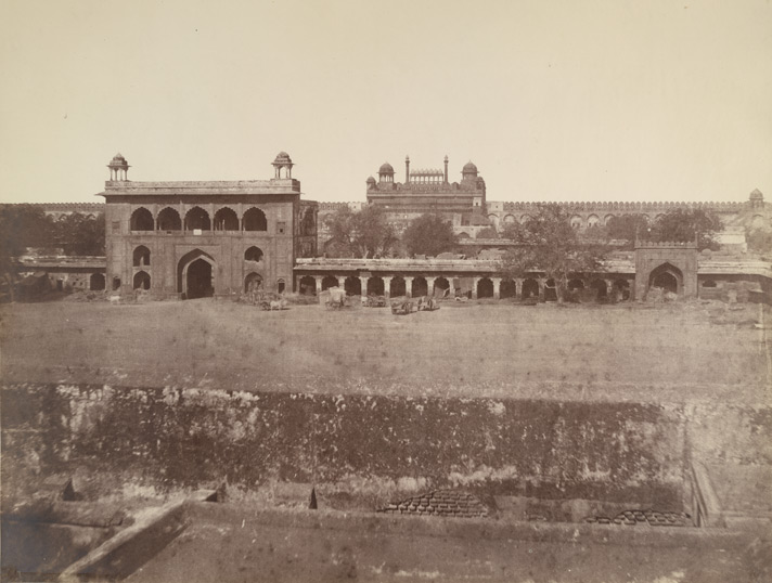 This is a view looking west across the Red Fort from the Diwan-i-Am towards the Naqqar Khana (also known as the Hathiyan Pol or Elephant Gate) and in the distance the Lahore Gate. The Red Fort was built by the Mughal Emperor Shah Jahan (r.1628-58) between 1639 and 1648. The Naqqar Khanna is the inner public gate of the palace at the Red Fort. The large red sandstone pavilion stands at the eastern end of an open space which leads into the Diwan-i-Am, the Emperor's Hall of public audience. Part of a portfolio of photographs taken in 1858 by Major Robert Christopher Tytler and his wife, Harriet, in the aftermath of the Uprising of 1857. This file has been provided by the British Library from its digital collections. This tag does not indicate the copyright status of the attached work. A normal copyright tag is still required. See Commons:Licensing.